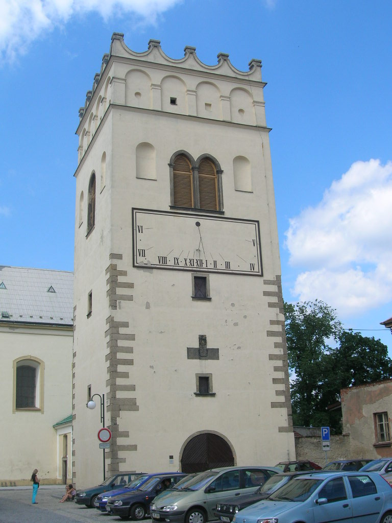 Renaissance bell tower (1609) in Lipník nad Bečvou (Czech Republic (Moravia))